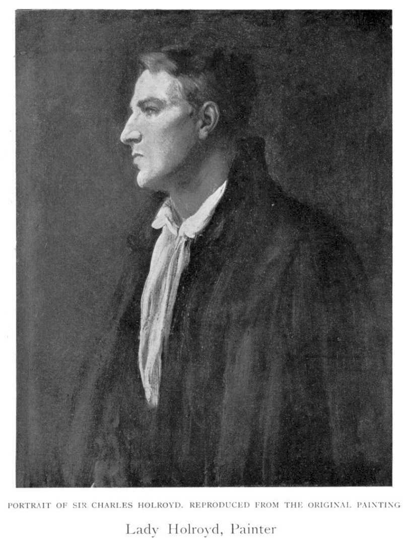 1905 print after page of Women painters of the world, from the time of Caterina Vigri, 1413-1463, to Rosa Bonheur and the present day, by Walter Shaw Sparrow, The Art and Life Library, Hodder & Stoughton, 27 Paternoster Row, London